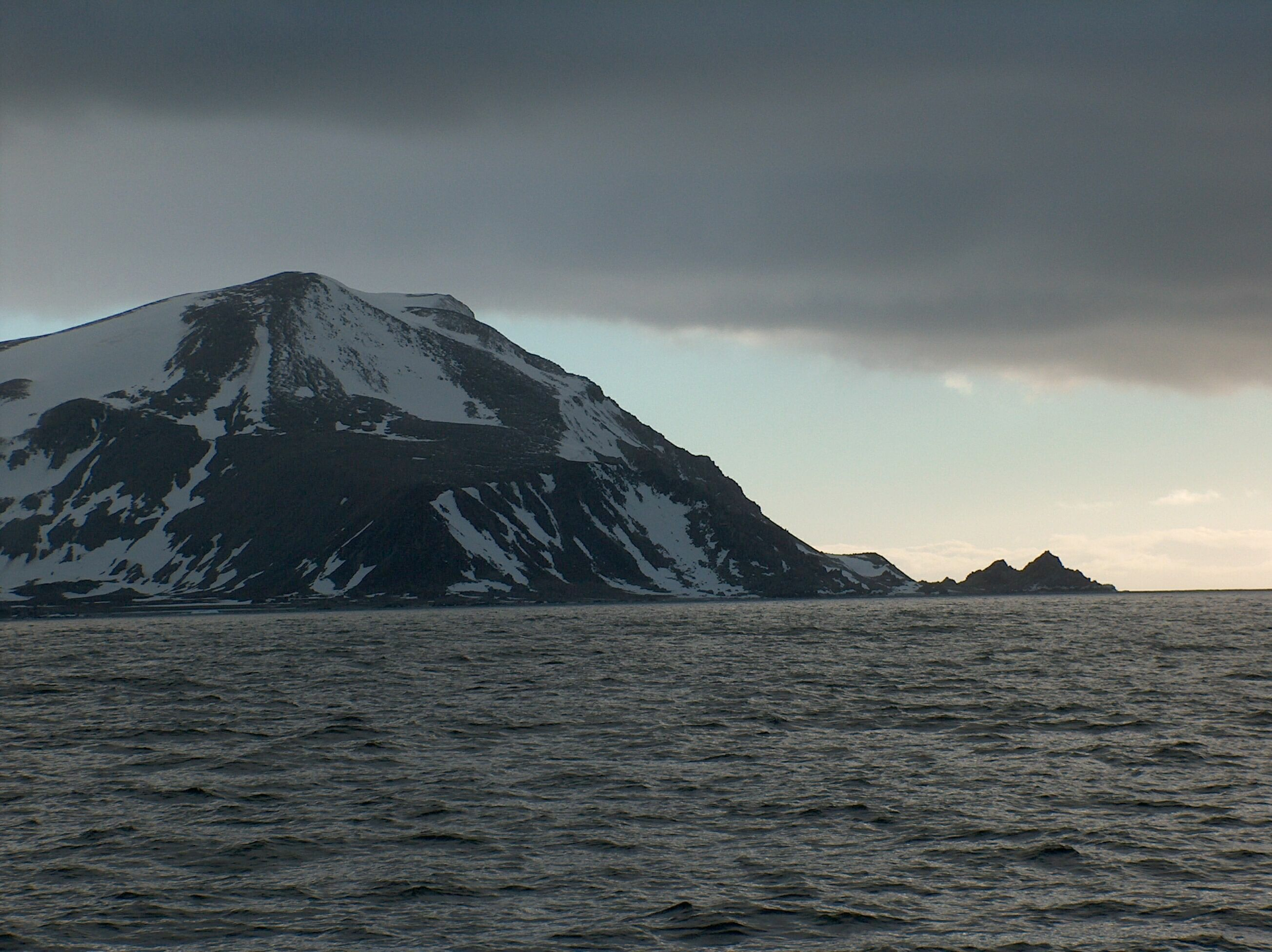 Botev Point on Livingstone Island, Antarctica